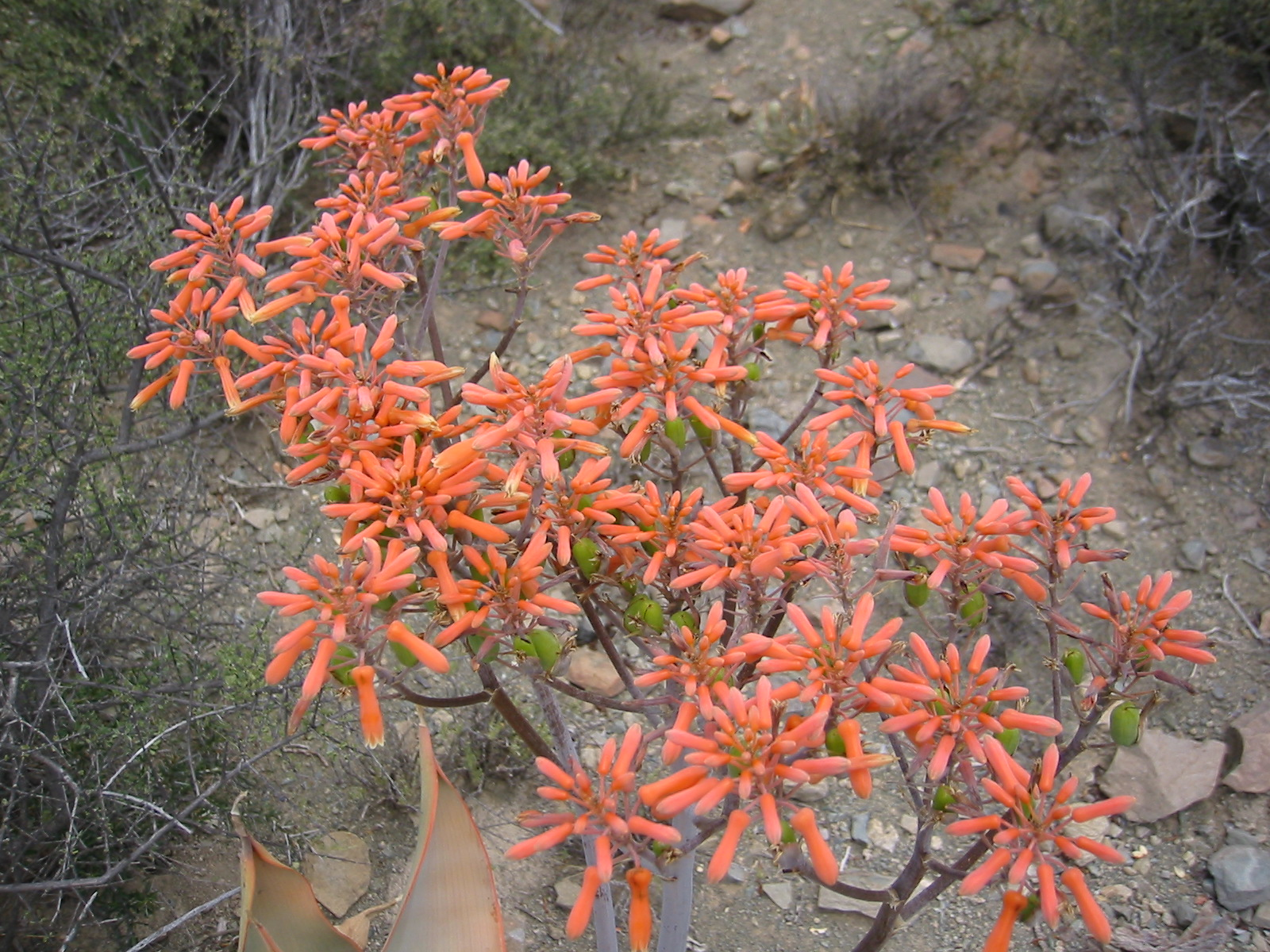 Aloe flowers. I was amazed by the beauty of the flower that comes out of a cactus. This picture was taken in Karoo National Park, just outside Graaff-Reinet.